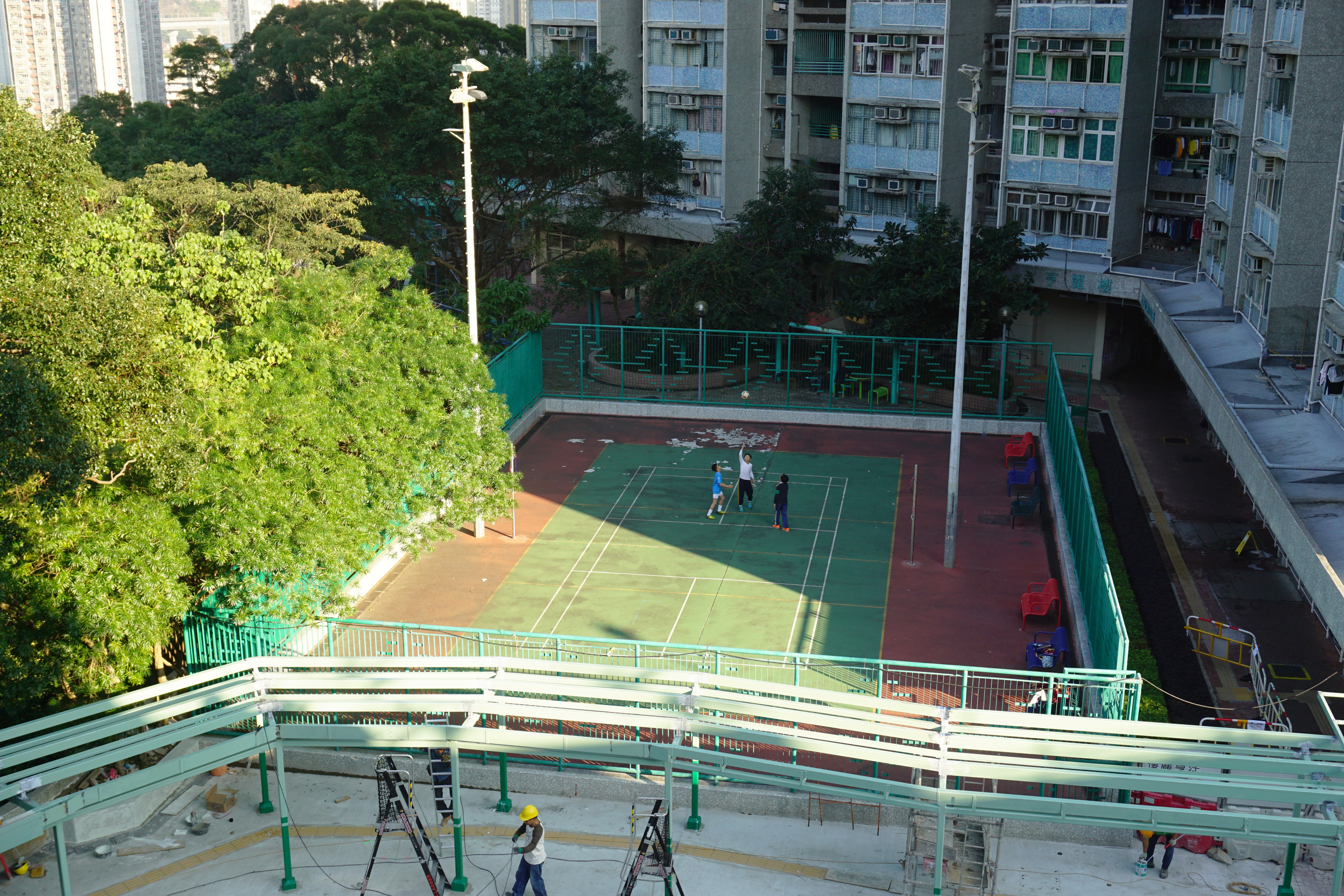 Cheung Hang Estate in Tsing Yi, Hong Kong.